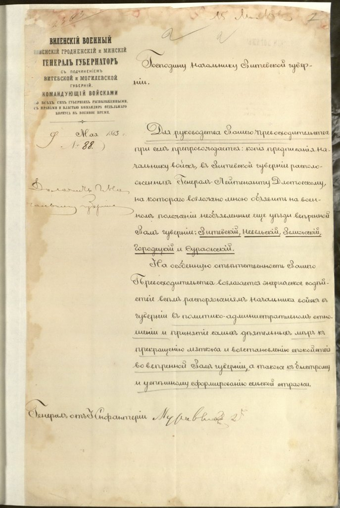 Decree of the Vilno General-Governor Mikhail Nikolayevich Muravyov to Vitebsk Governor Alexander Ogolin. Signed: May 9, 1863 AD in Vilno city (Russian empire)